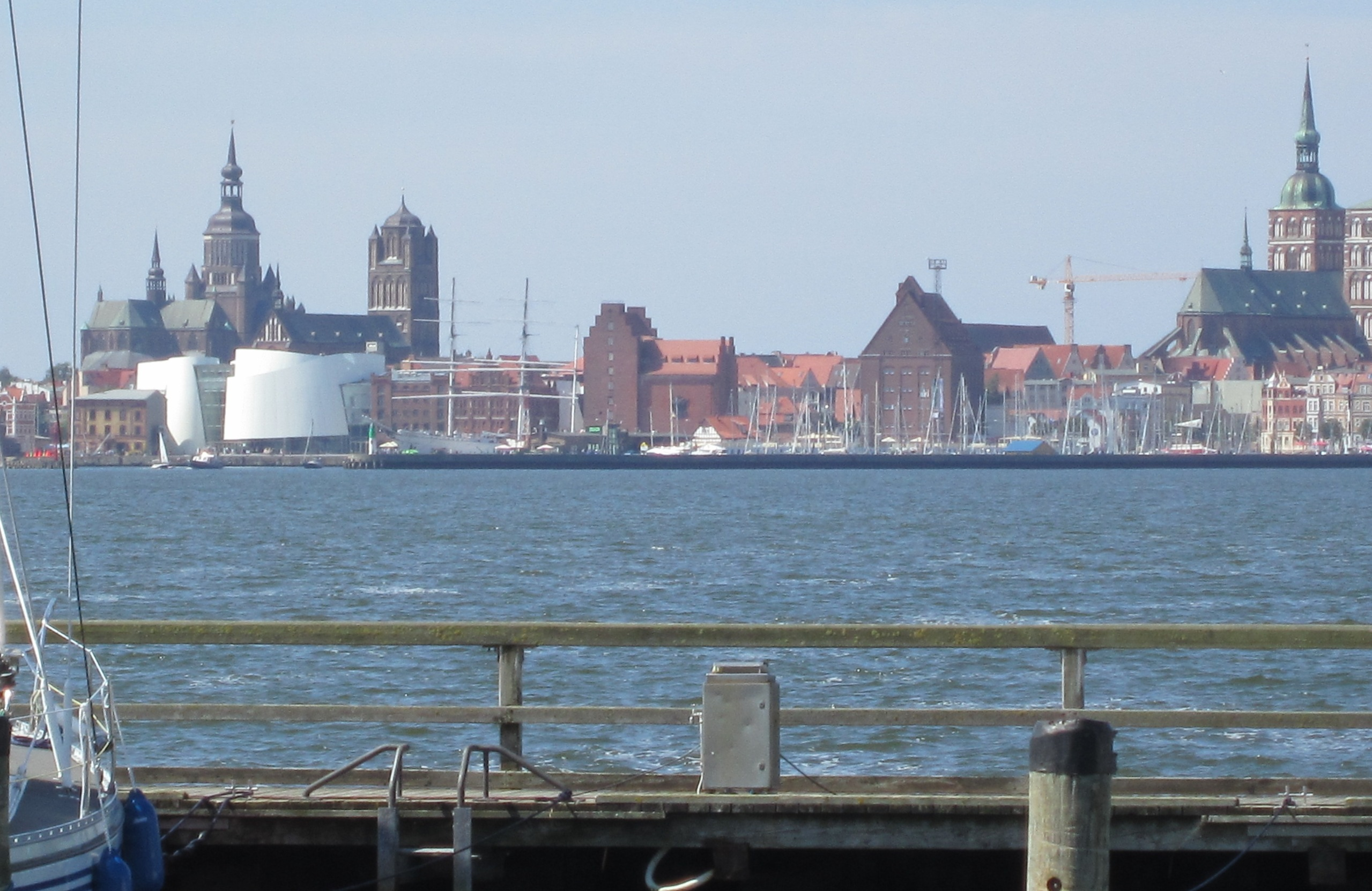 View towards Stralsund with the Strelasund lagoon in the front, seen from Altefähr on the island of Rügen. To the left: Church of St. Mary and St. Jacobi, with the oceanic museum Ozeaneum Stralsund in the front. Historical warehouses surrounding it. To the right: St. Nikolai.